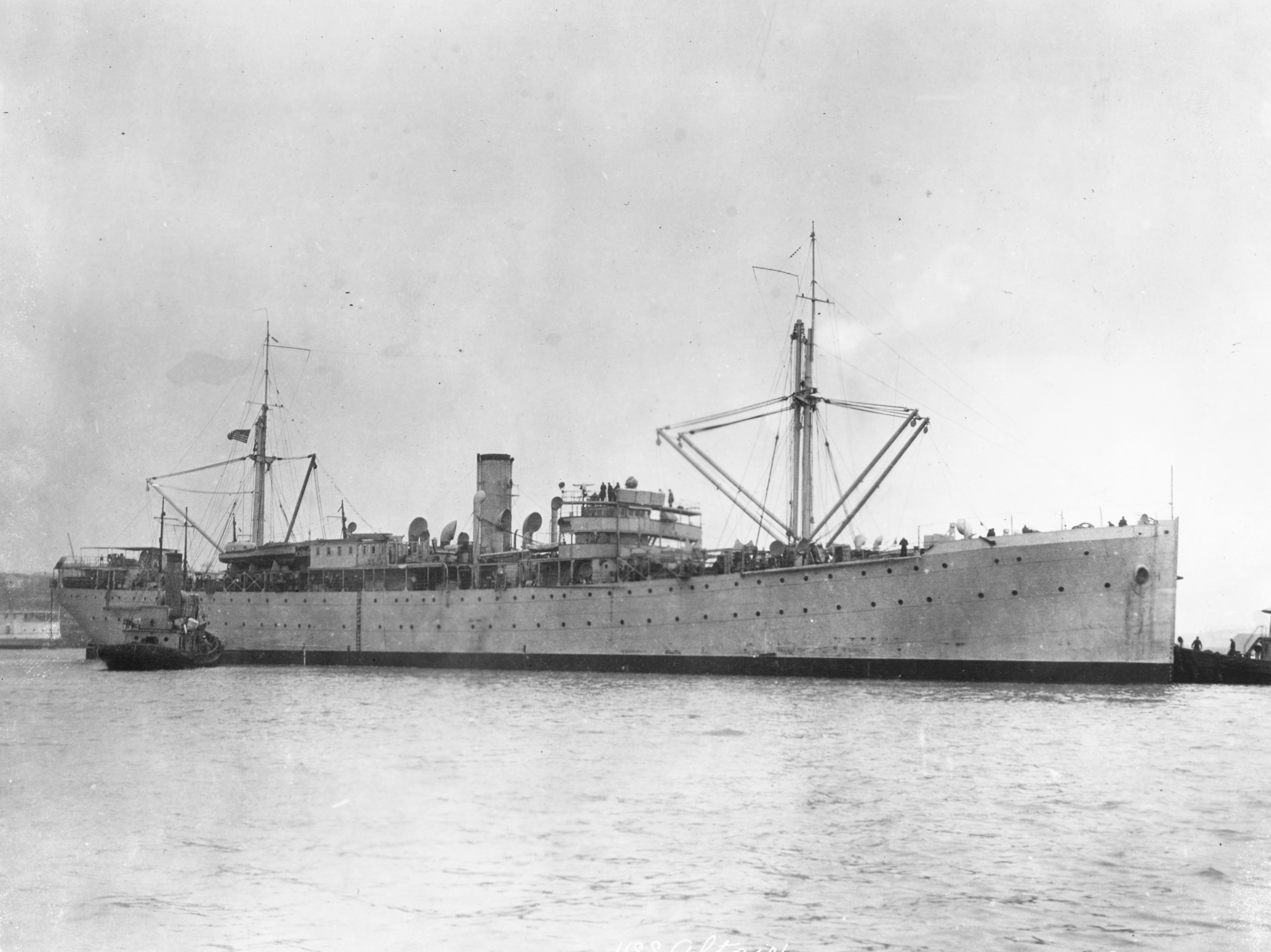 The U.S. Navy destroyer tender USS Altair (AD-11), in 1921.